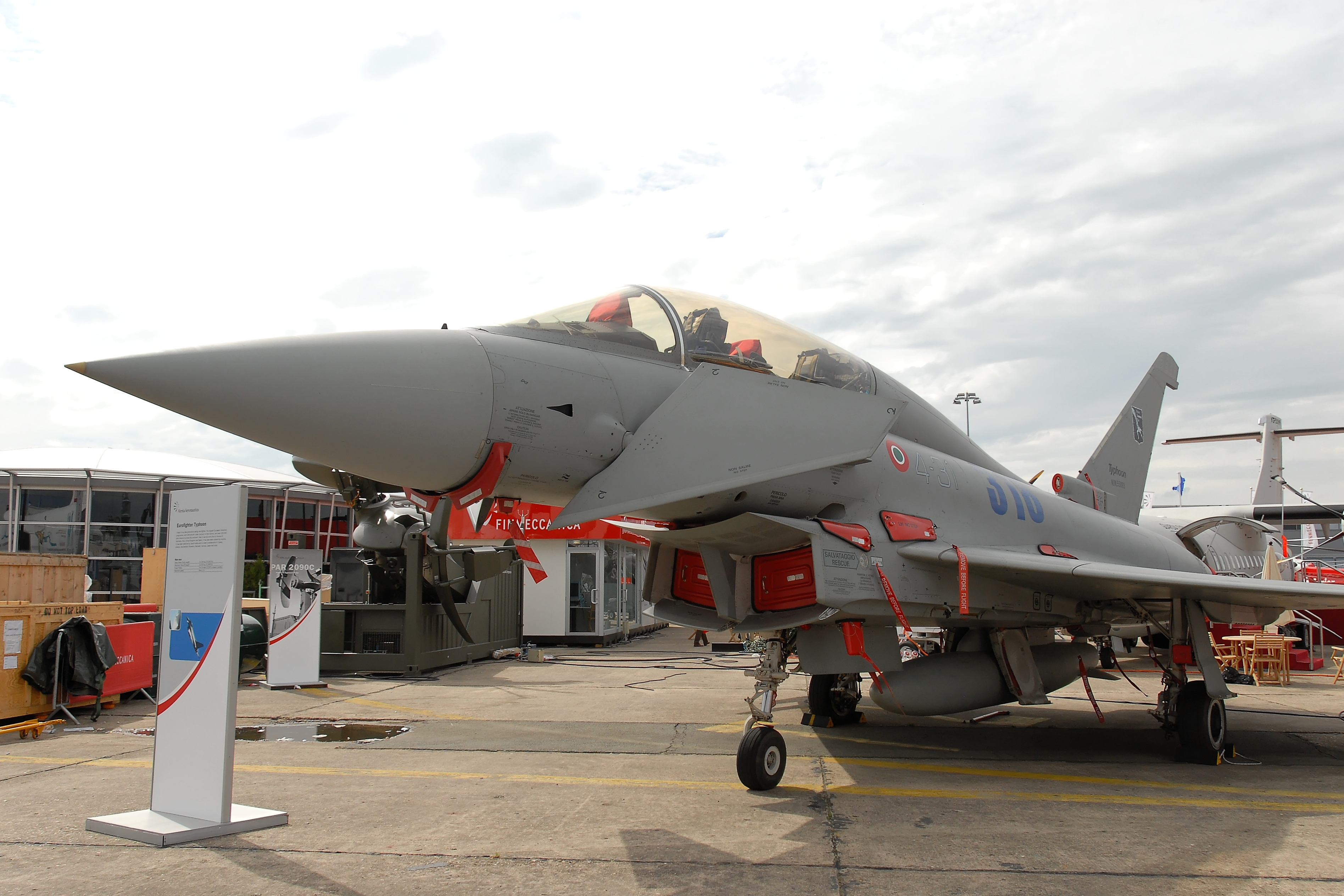 A Eurofighter Typhoon at the International Paris Air Show in the Le Bourget airport.